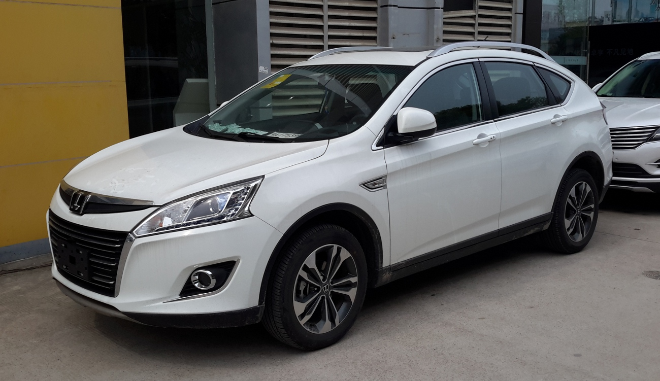 Luxgen U6 photographed in Wuhan, Hubei province, China.